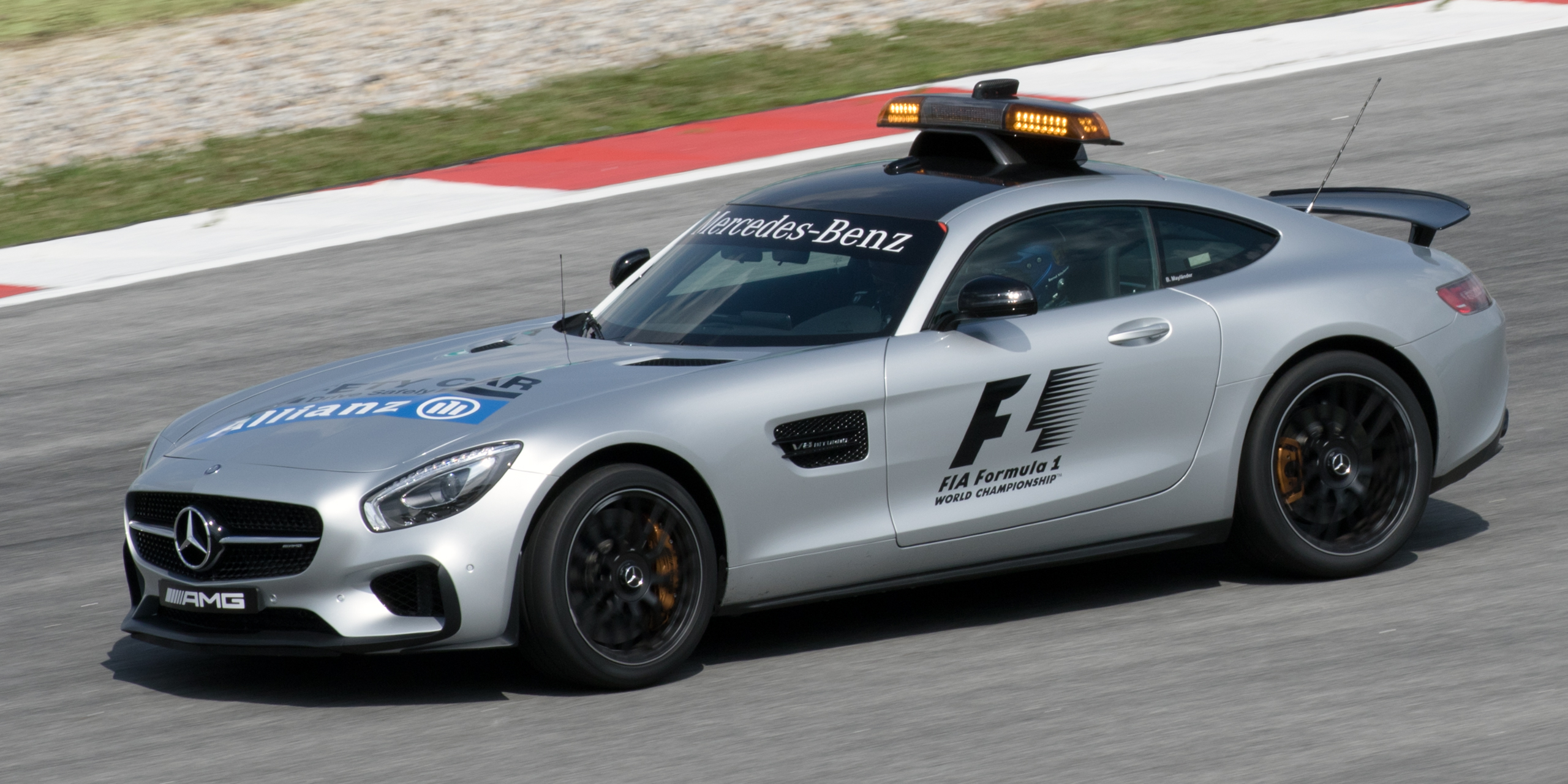 Formula One 2015 Rd.2 Malaysian GP: Mercedes-AMG GT S (C190) Safety Car